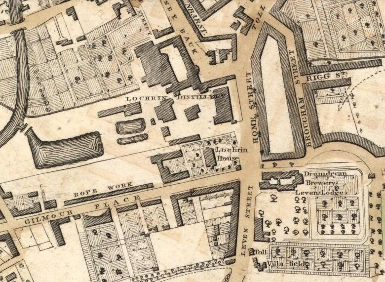 The Lochrin area on John Wood's Plan of the City of Edinburgh, 1831, showing Drumdryan Brewery, Lochrin Distillery, Union Canal basin and Gilmour Ropeworks. The street layout east of Home Street was an intended improvement included on the map but not carried out as shown.